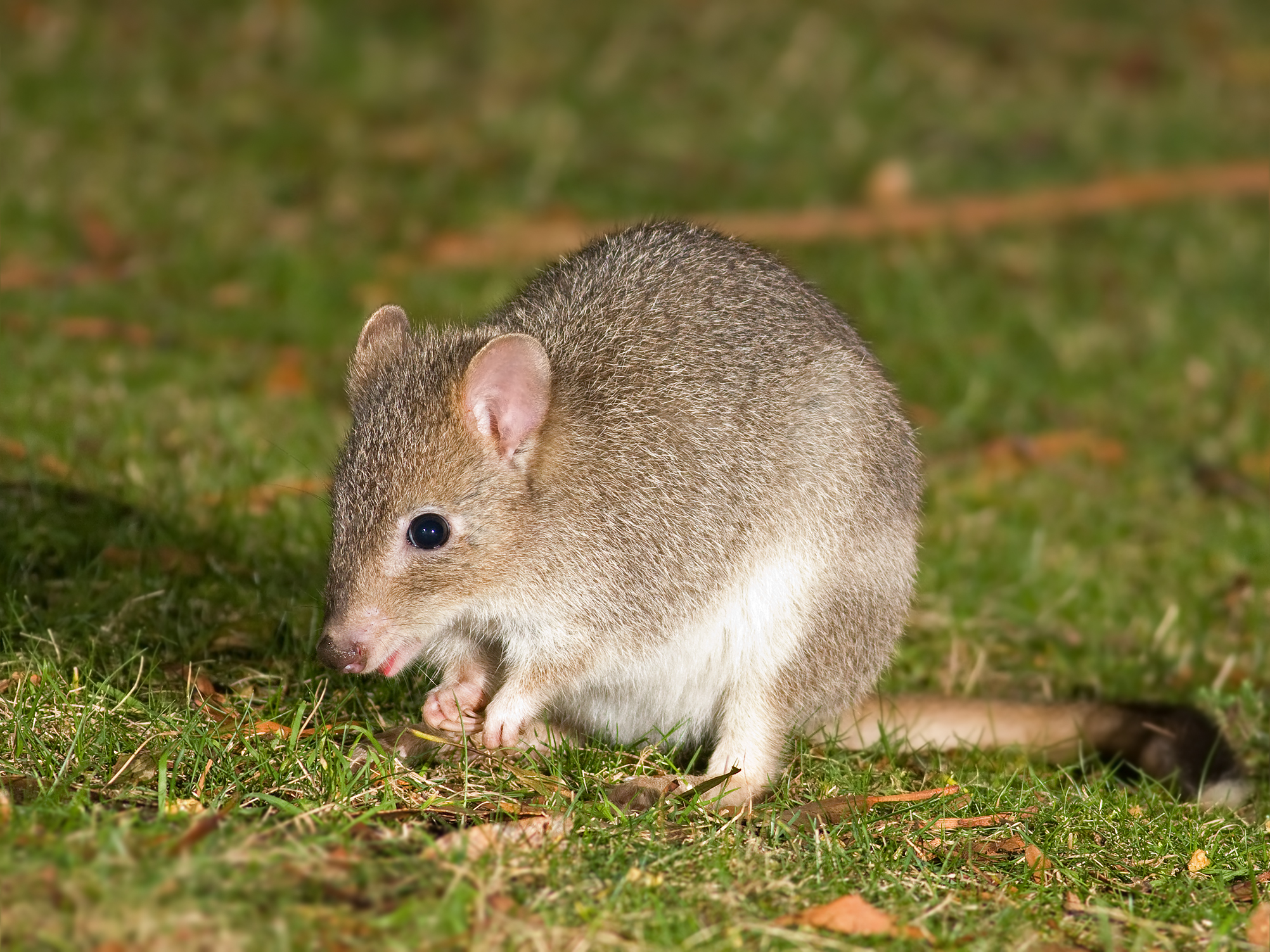 Tasmanian Bettong (Bettongia gaimardi), Waterworks Reserve, Tasmania, Australia. The photo taken at night with off camera flashes.